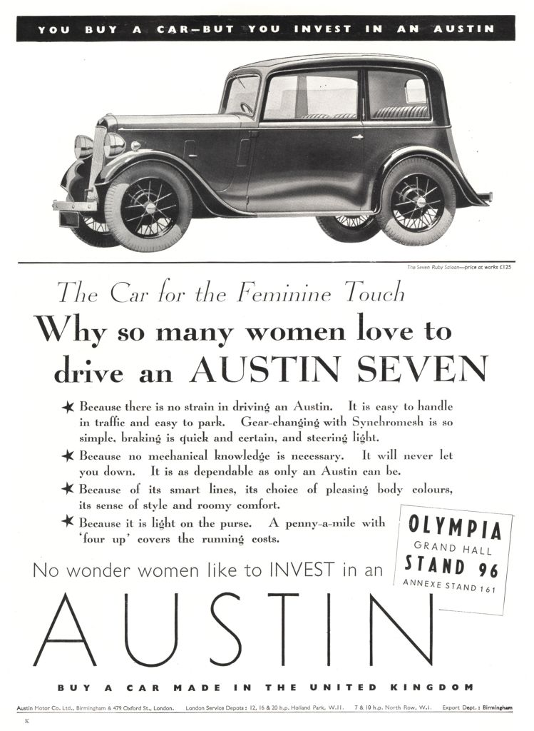 Austin Seven advert 1937 YOU BUY A CAR - BUT YOU INVEST IN AN AUSTIN The Seven Ruby Saloon - price at works £125 The Car for the Feminine Touch Why so many women love to drive an AUSTIN SEVEN Because there is no strain in driving an Austin. It is easy to handle in traffic and easy to park Gear-changing with Syncromesh is so simple, braking is quick and certain, and steering light. Because no mechanical knowledge is necessary. It will never let you down. It is as dependable as only a Austin can be. Because of its smart lines, its choice of pleasing body colours, its sense of style and roomy comfort Because it is light on the purse. A penny-a-mile with 'four up' covers the running costs. No wonder women like to INVEST in an AUSTIN BUY A CAR MADE IN THE UNITED KINGDOM OLYMPIA GRAND HALL STAND 96 ANNEXE STAND 161 Austin Motor Co. Ltd., Birmingham & 479 Oxford St., London. London Service Depots: 12, 16 & 20 h.р. Holland Park, W.11 7 & 19 h.р. North Row, W.1. Export Dept. : Birmingham